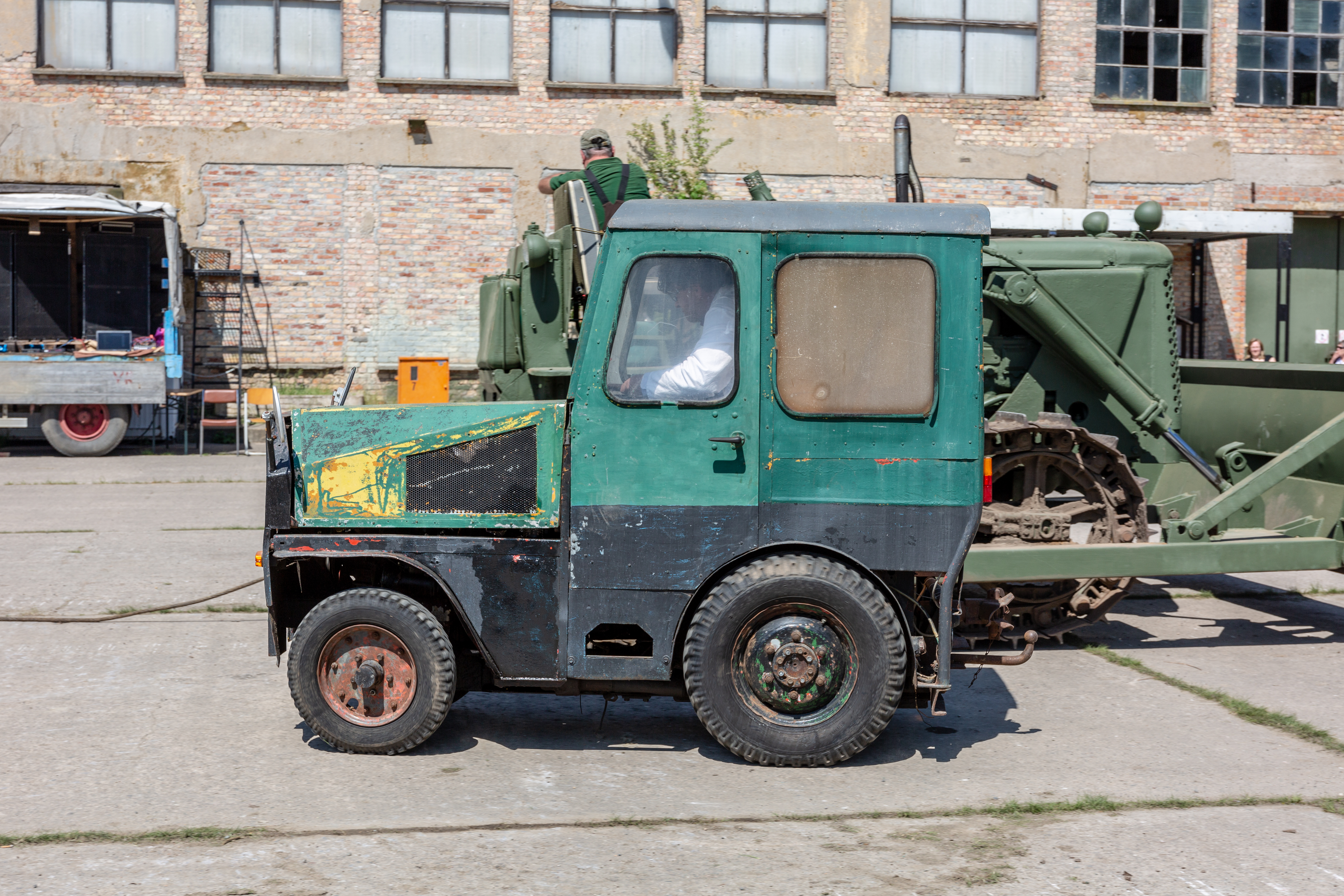 Pfingsttreffen Pütnitz 2018